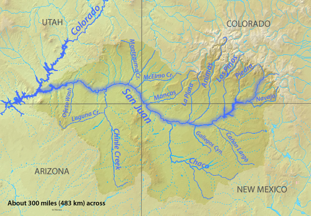 Map of the San Juan River watershed, tributary to the Colorado River in the southwestern USA